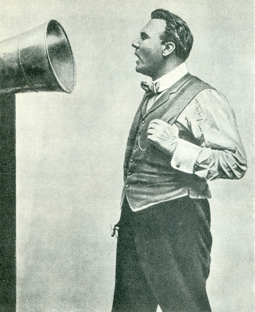 Russian bass, Feodor Chaliapin (1873 - 1938) singing into a recording horn, 1913